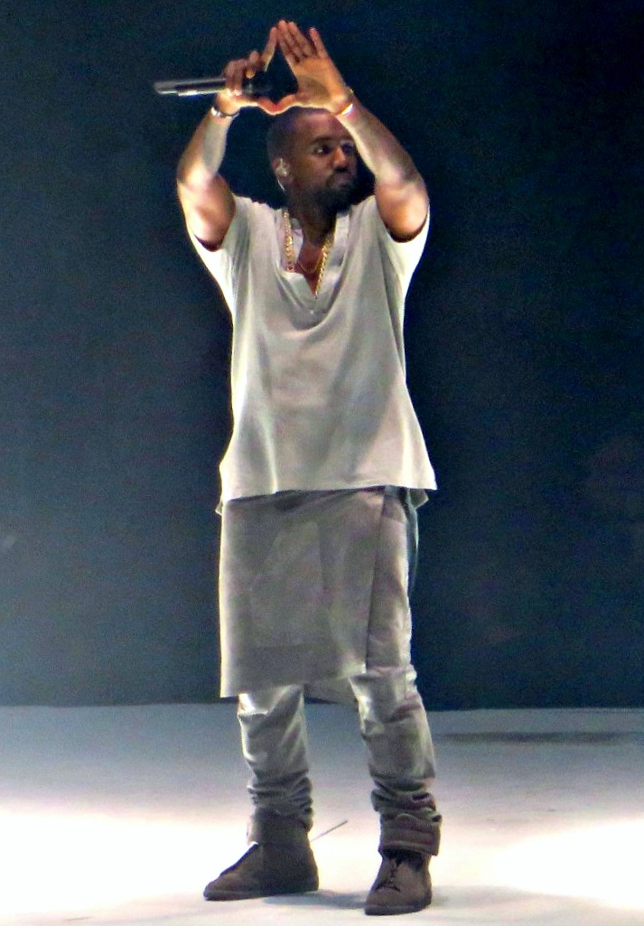 Kanye West performing at Bridgestone Arena on November 27, 2013 in Nashville, Tennessee on The Yeezus Tour.